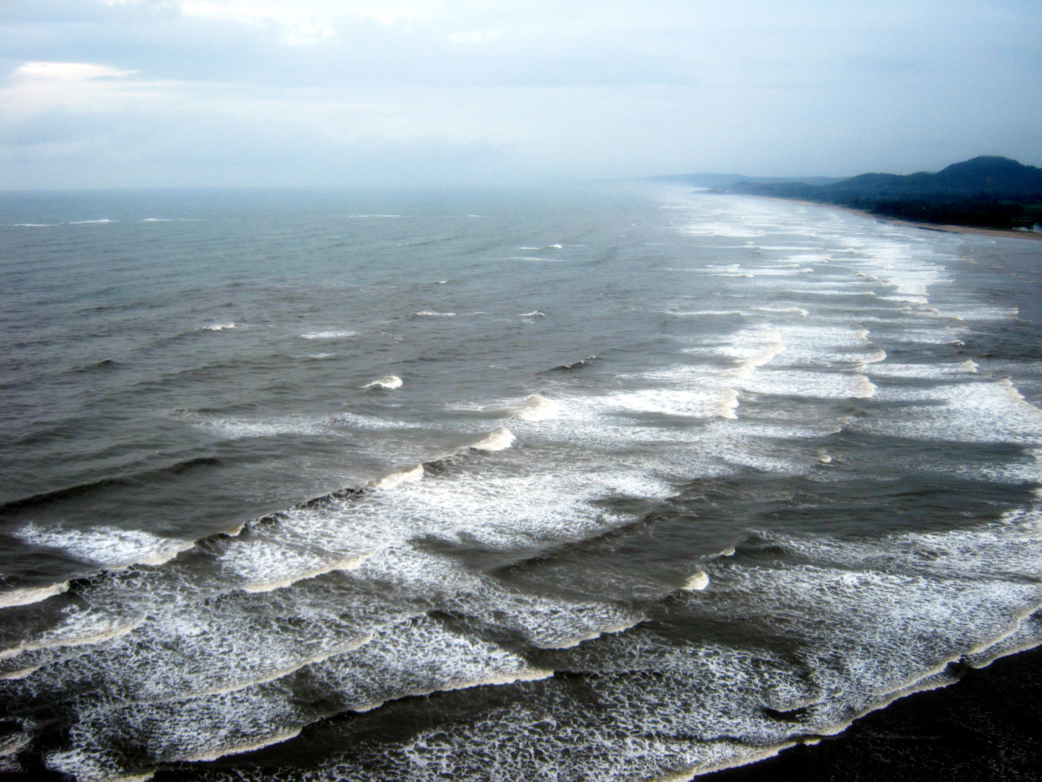 Murudeshwar Beach India